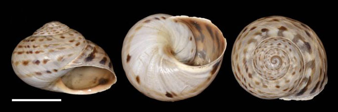 Composition of the 3 main views of the shell of Allognathus graellsianus. Locality: Escorca (Mallorca)